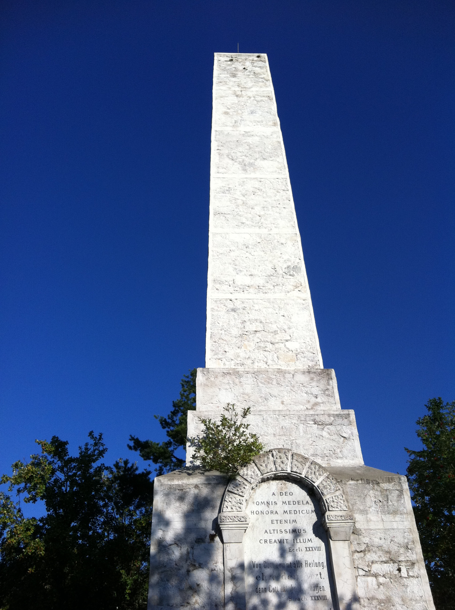 The Monument "Novystein" next to St. Radegund near by Graz in Austria.